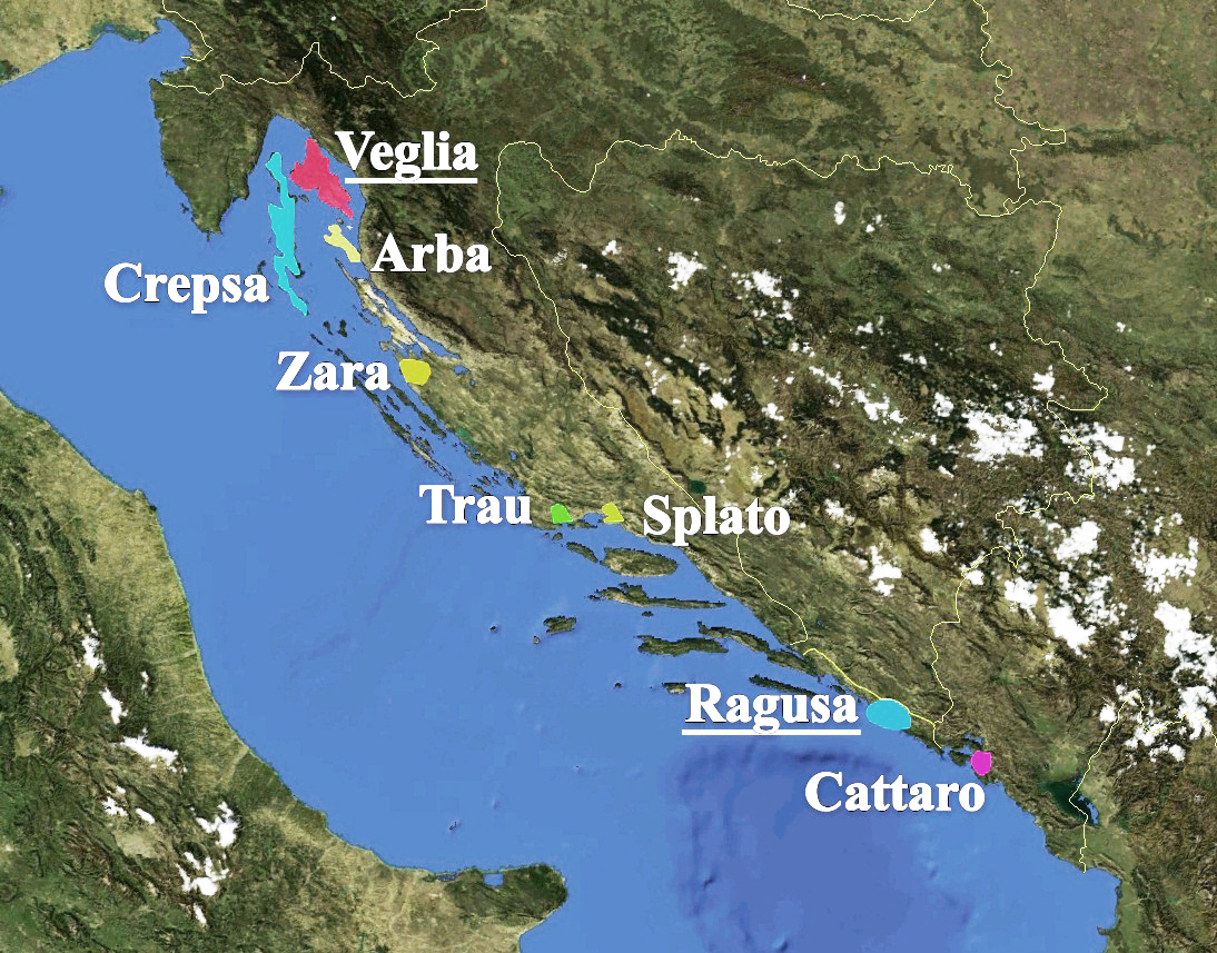 Dalmatian language -- major cities where it was spoken. Made by Bogdan Giuşcă, based on a satellite image by NASA.